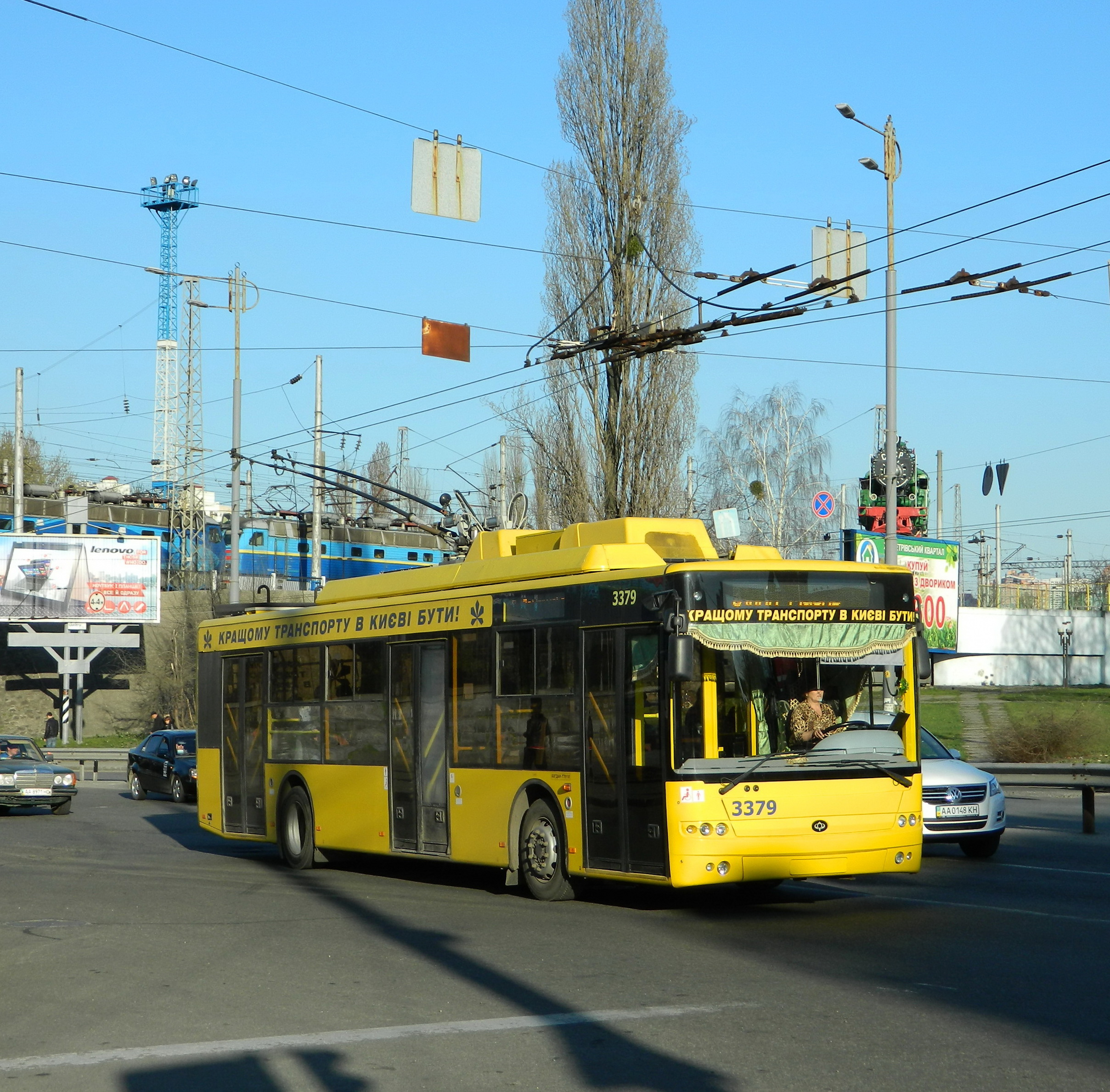 Bogdan T701 trolleybus in Kiev